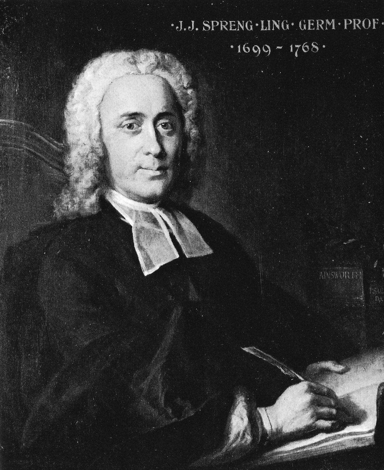 Huber, J.J. Spreng